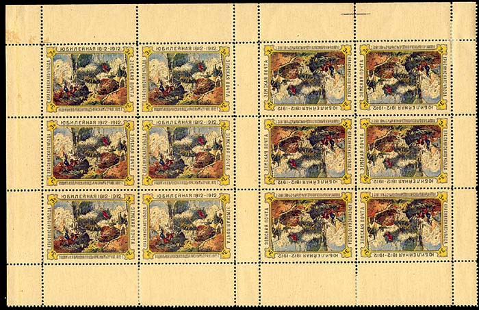 A stamp sheet of Russian Zemstvo local stamps, with gutters, Krasninsky Uyezd, # 11, 1912.